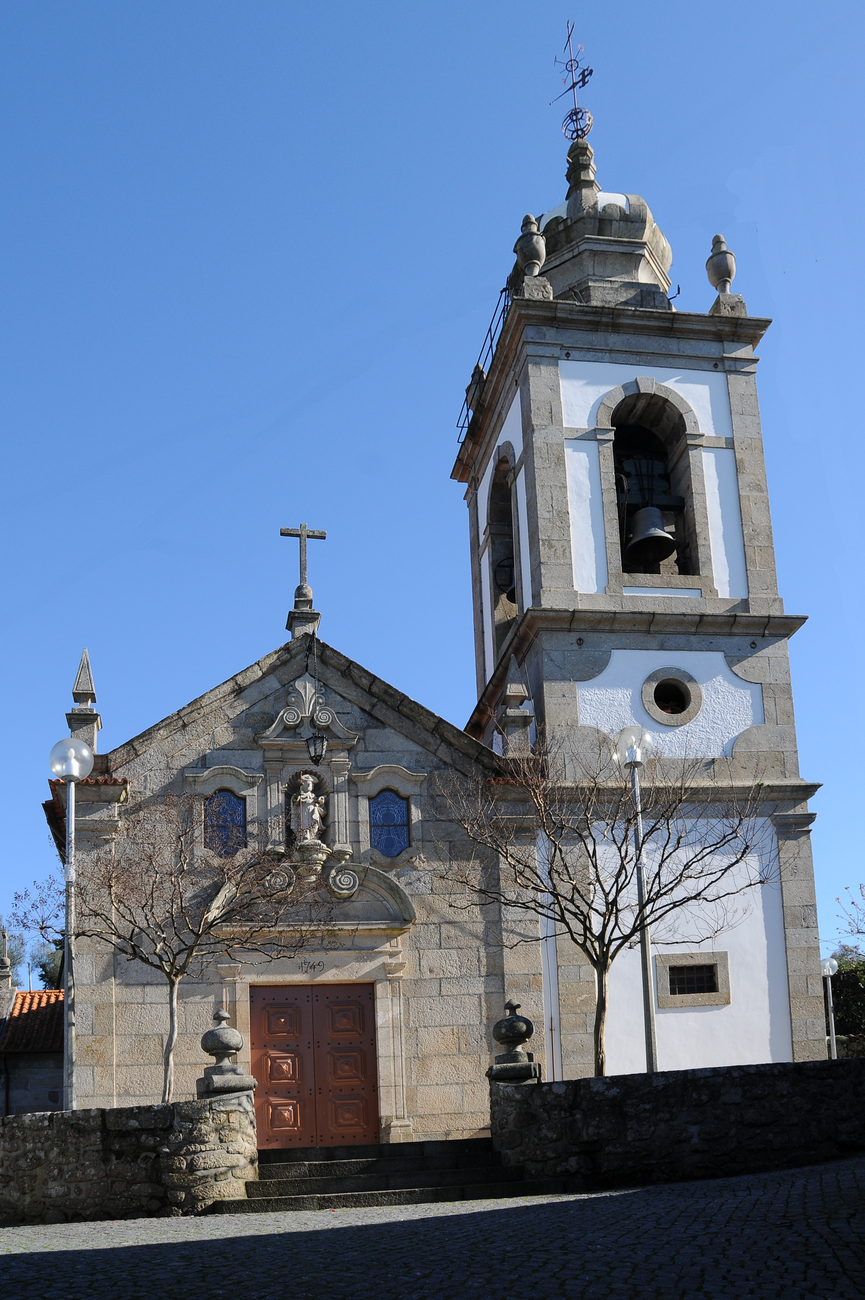 Caldelas Church, in Caldelas Amares, Portugal